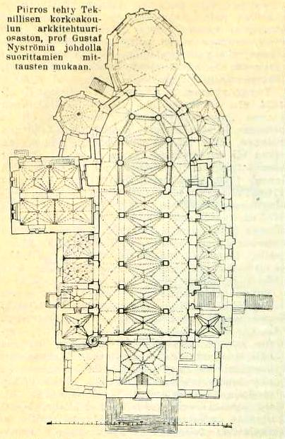 Turku Cathedral plan. The drawing was made in Helsinki Technical University, according to the planimetry made by Architecture School, under Professor Gustaf Nyström